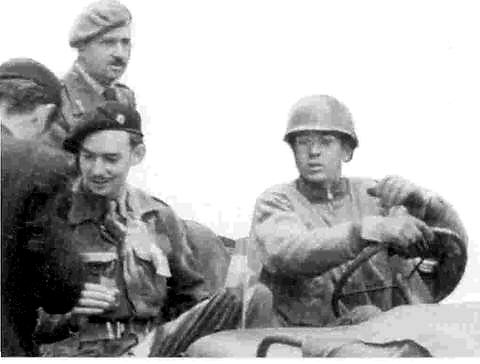 Prince Felix of Luxembourg and his son Jean, the future Grand Duke, at the liberation of Luxembourg City.